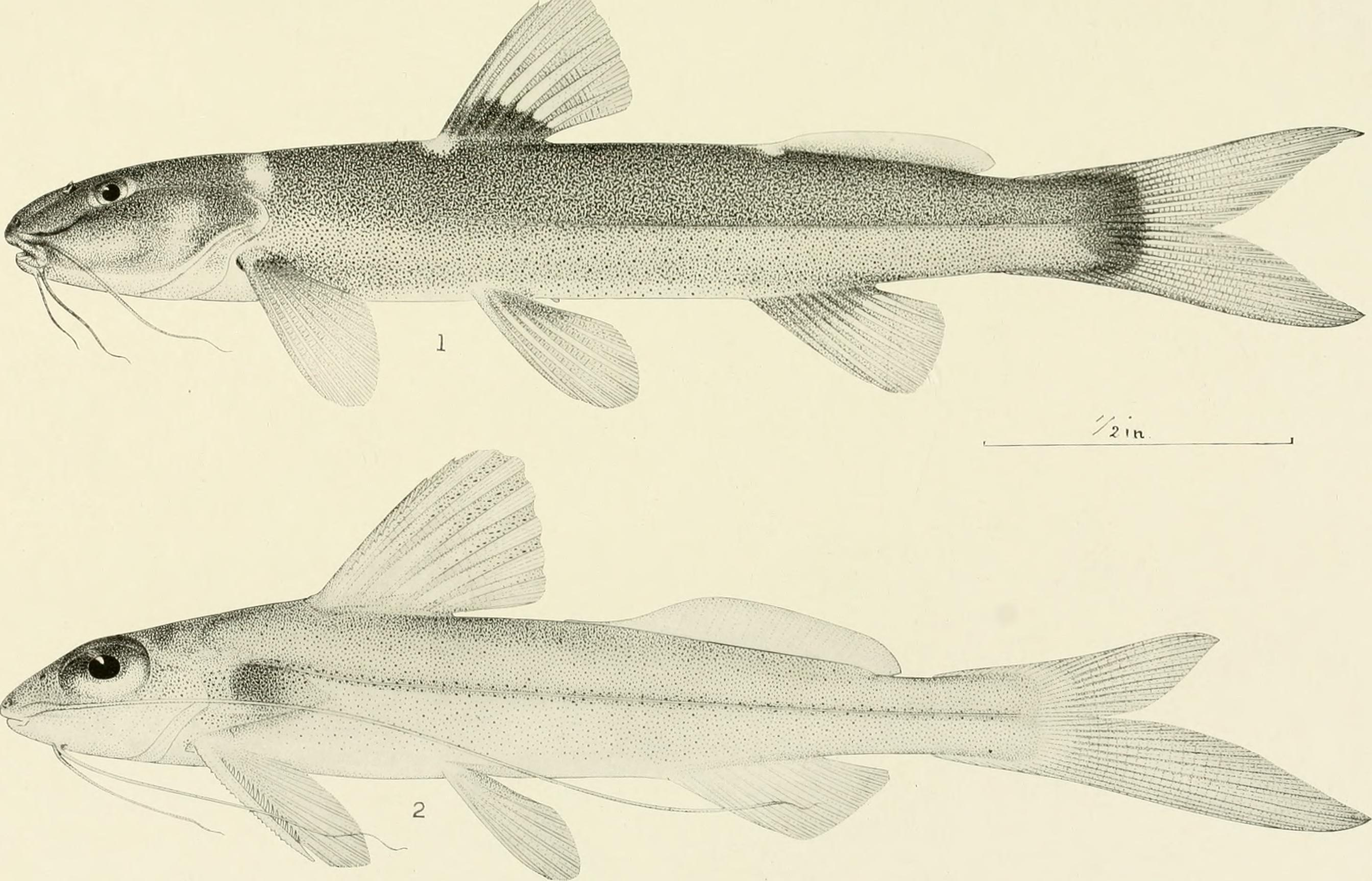 Chasmocranus brevior & Pimelodella megalops Title: The freshwater fishes of British Guiana, including a study of the ecological grouping of species and the relation of the fauna of the plateau to that of the lowlands Year: 1912 (1910s) Authors: Eigenmann, Carl H., 1863-1927 Subjects: Fishes -- Guyana Fishes -- South America Bibliography Publisher: Pittsburgh : Carnegie Institute Text Appearing Before Image: «r V / ri 10 CO o z z sz H CO zz g z HO W oS Text Appearing After Image: 1 ft PJ